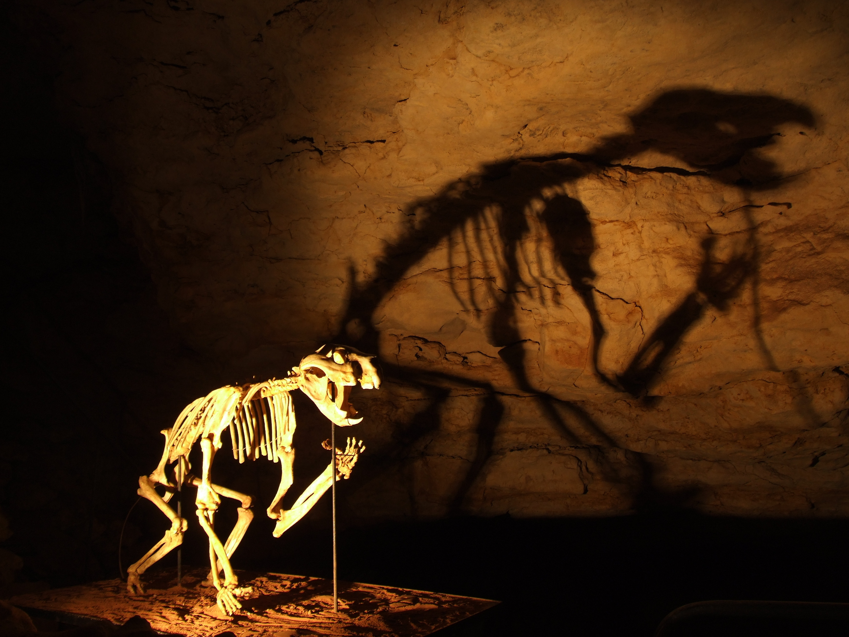 Reconstructed Thylacoleo Skeleton in the Victoria Fossil Cave of the Naracoorte Caves